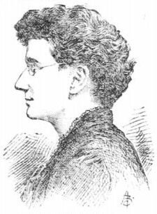 Sketch of Adeline Knapp